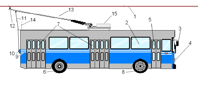 Diagram of Russian trolleybus ZiU-9.